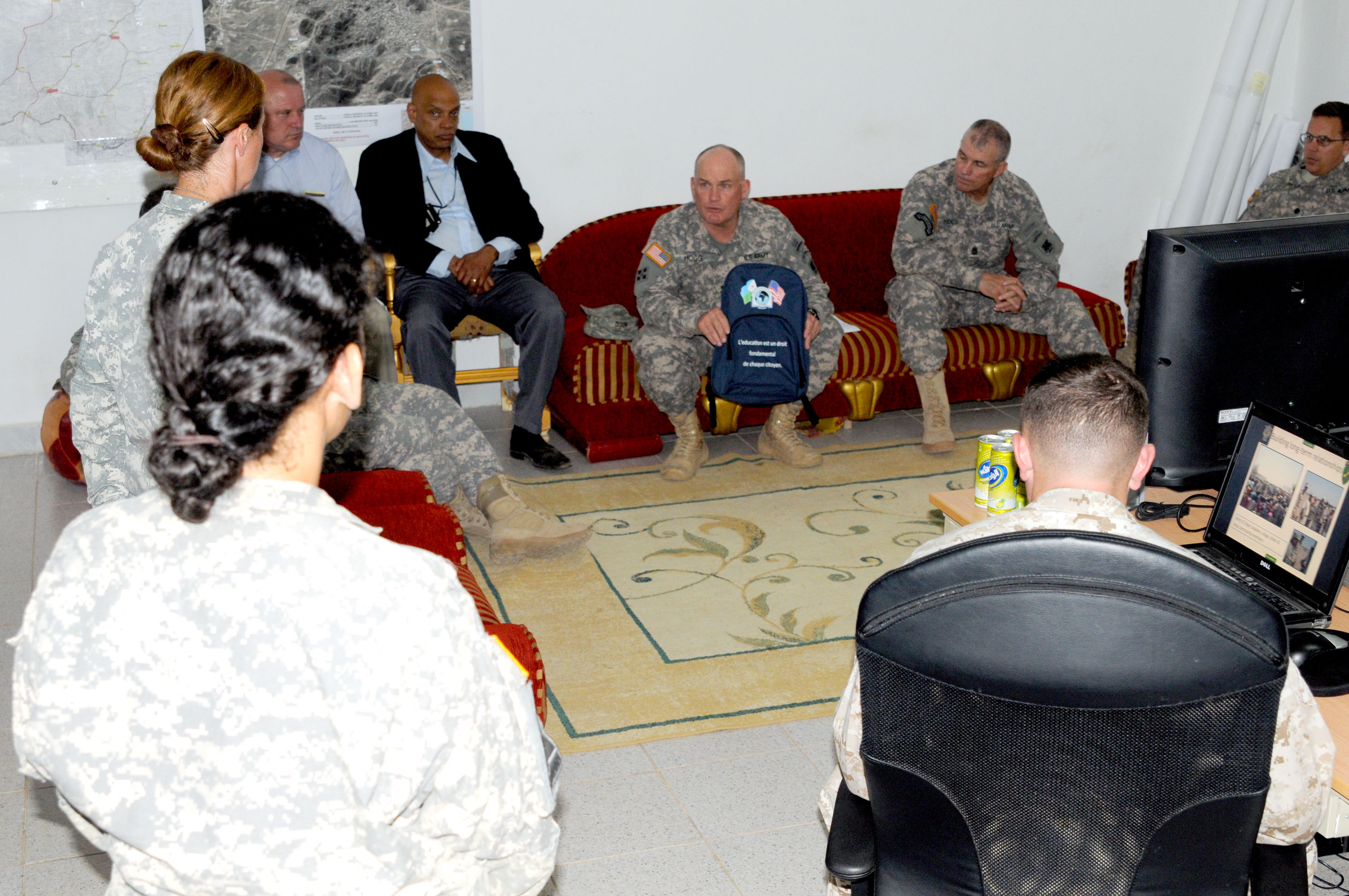 U.S. Army Africa Commander Maj. Gen. David R. Hogg gives kudos to members of the 490th Civil Affairs Battalion for coordinating the distribution of more than 5,000 backpacks for school children at 16 schools in the Ali Sabieh area. Hogg and a small group of advisors visited U.S. Army troops at the Combined Joint Task Force – Horn of Africa in Djibouti and attended meetings with African Union mission leaders in Addis Ababa, Ethiopia, April 24-27. (U.S. Army Africa photo by Rich Bartell) To learn more about U.S. Army Africa visit our official website at Official Twitter Feed: Official Vimeo video channel: Join the U.S. Army Africa conversation on Facebook